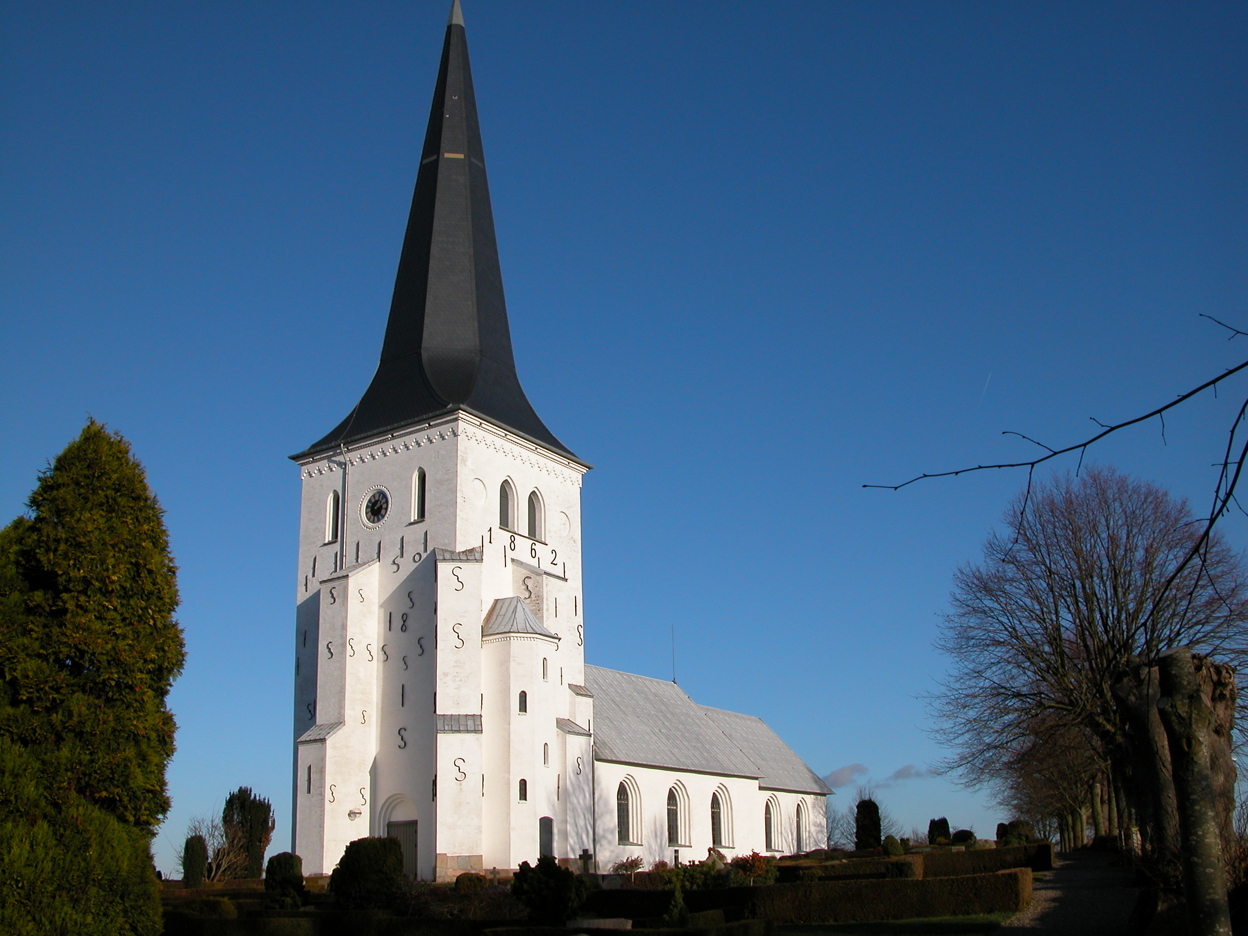 Church of Sottrup